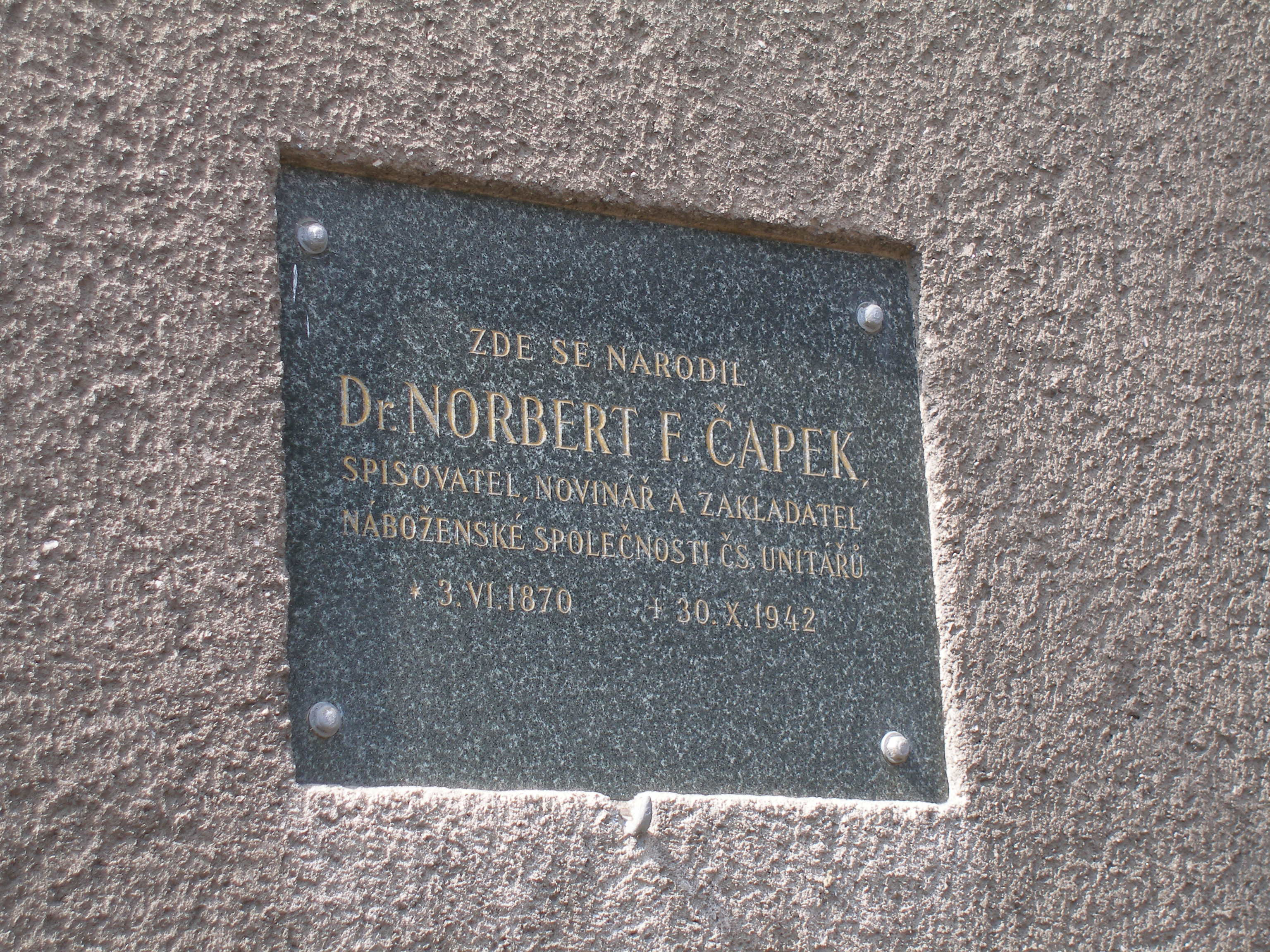 Memorial plaque of founder of Czech unitarianism Norbert Fabián Čapek on his birthhouse in Radomyšl